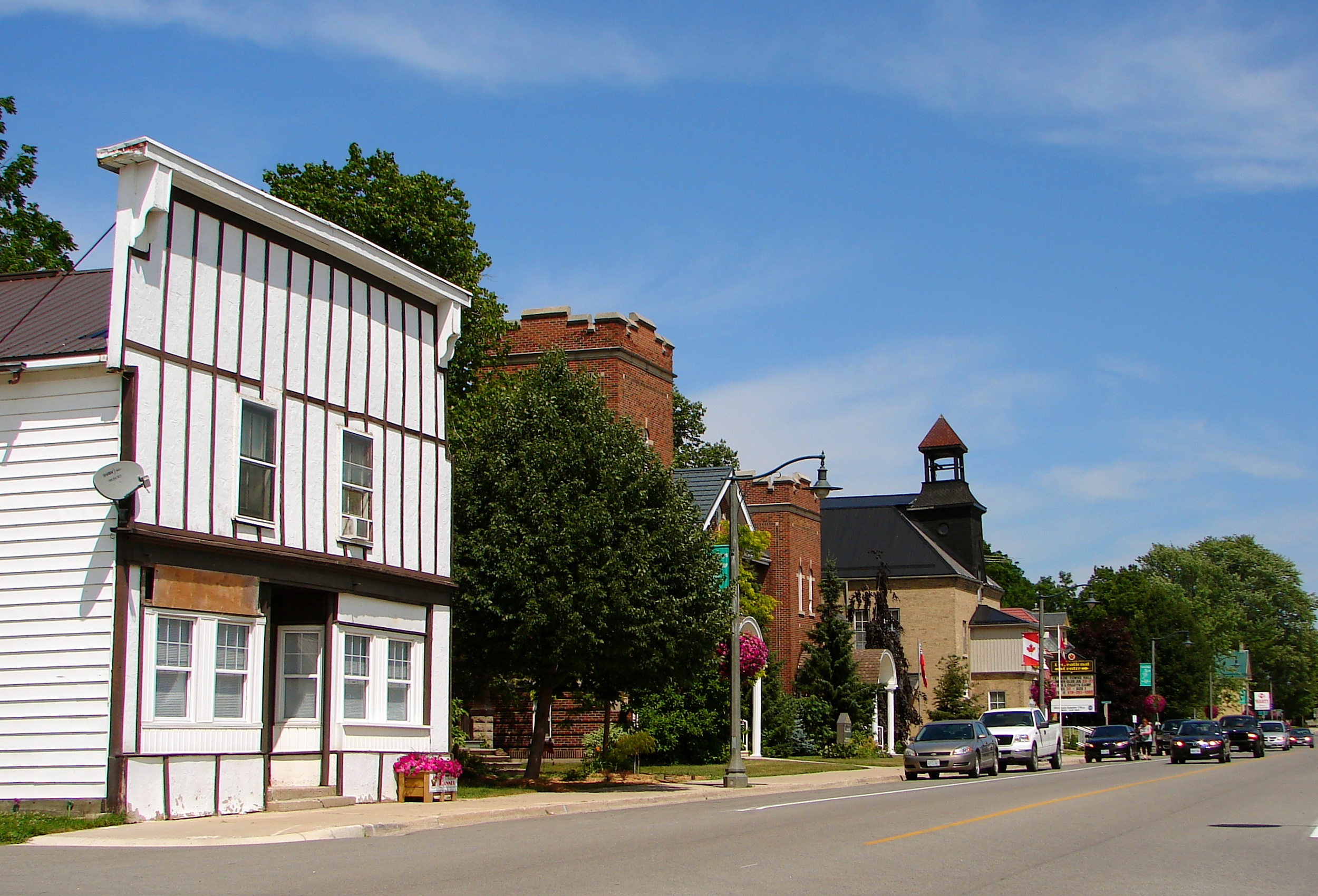 Ailsa Craig (Township of North Middlesex), Ontario, Canada